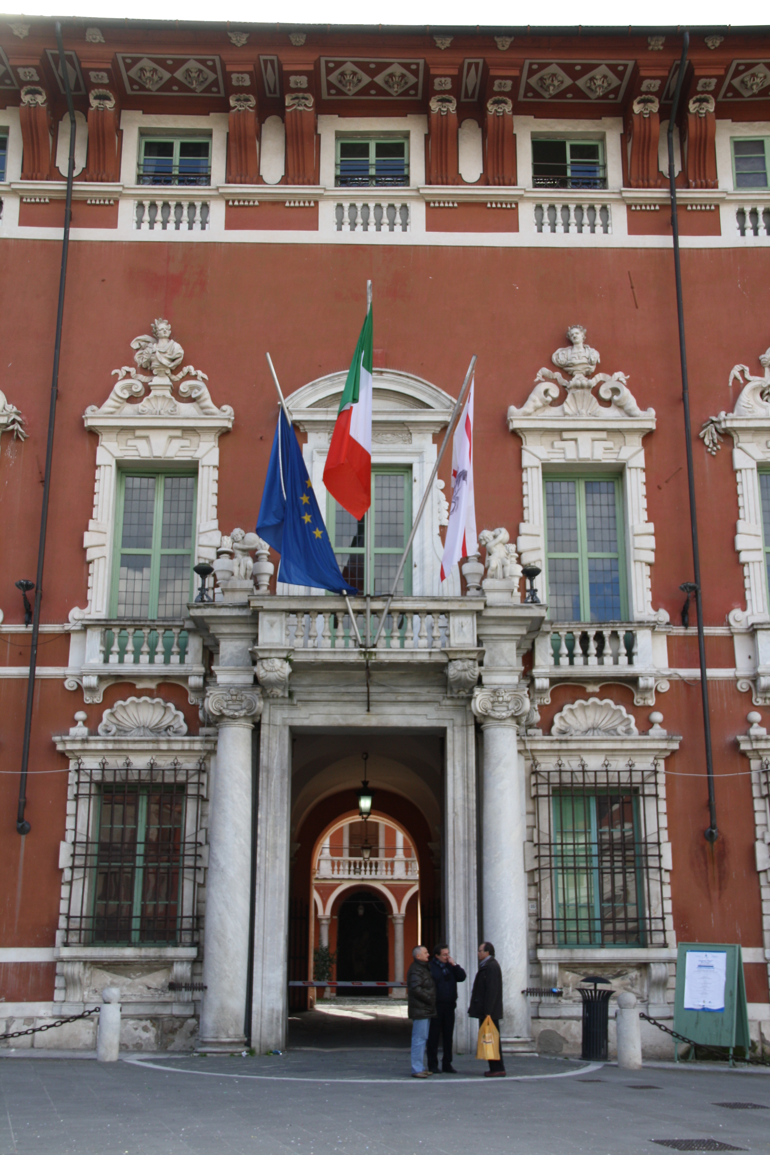 Italy, Tuscany, Massa, Piazza Aranci. The Ducal Palace take place in “Piazza Aranci” wanted by Elisa Baciocchi as a wide space in front of the Palace, breaking down the St. Peter Church in 1808 to make room. The obelisk was placed in the center of the square and later was surrounded by the four white marble lions by Ludovico Isola in 1886. The original part of the Palace was built in the first part of 1500s under Carlo I Cybo-Malaspina as the Hall of the Swiss and the Ducal Chapel. The Palace took the present aspect only at the beginning of 1700s by the will of the Princess Teresa Pamphilj wife of Carlo II Cybo-Malaspina on plans of Alessandro Bergamini in Italian Renaissance style. The Palace is now home of the Prefettura.